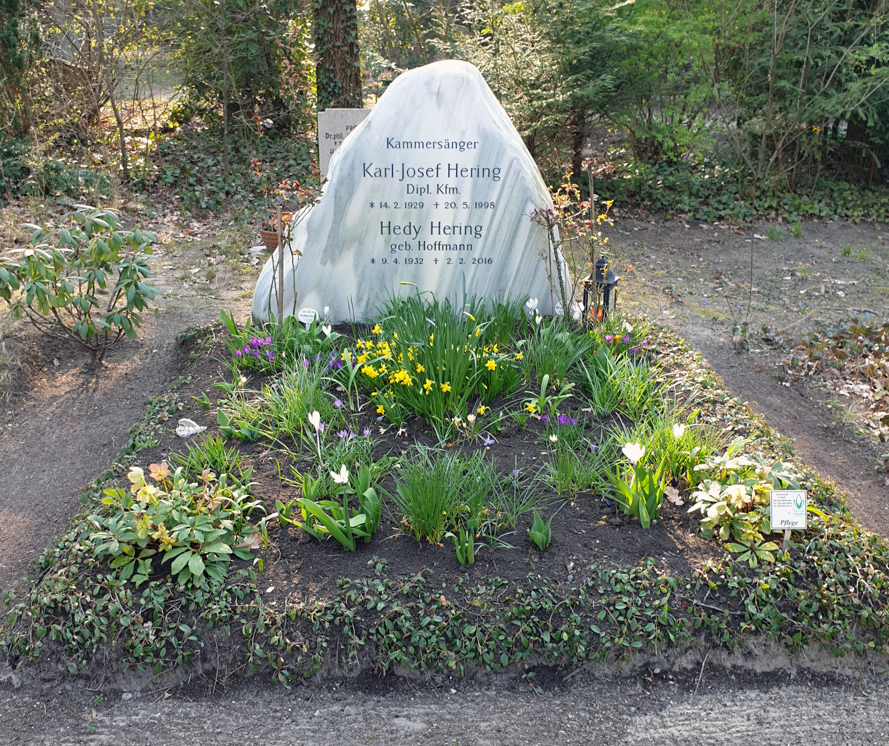 Grave, Karl-Josef Hering, Potsdamer Chaussee 75, Berlin-Nikolassee, Germany